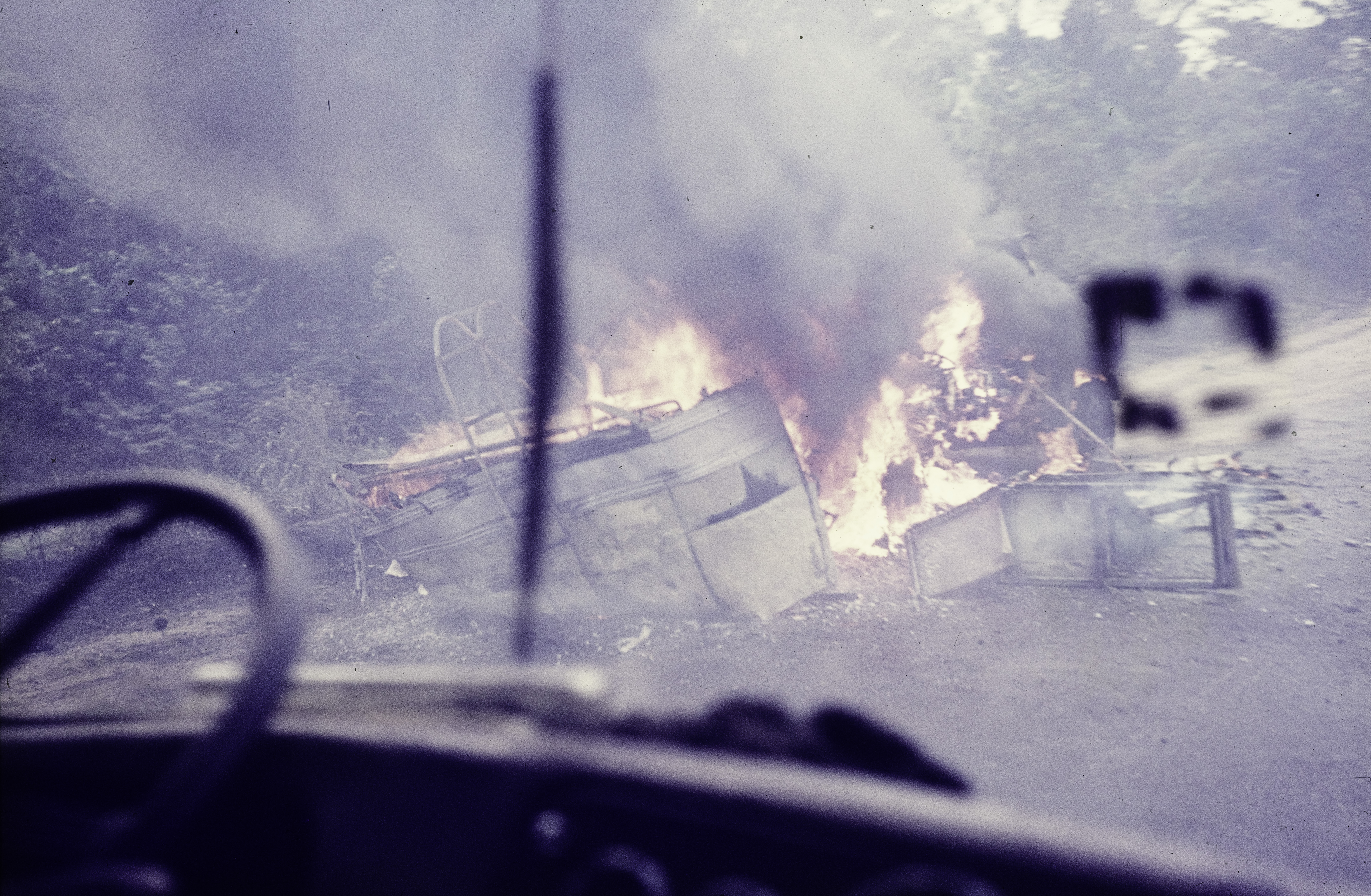 Accident on a road in South Nigeria. Photo from my taxi. Burning car wrecks of a van and a tank truck seen through the windshield.